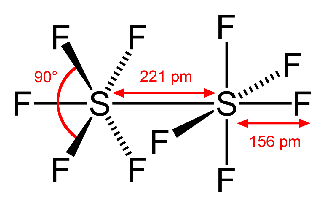 Structure of disulfur decafluoride, S2F10, including molecular dimensions. Based on a diagram in Greenwood & Earnshaw, second edition (1997), p. 684.